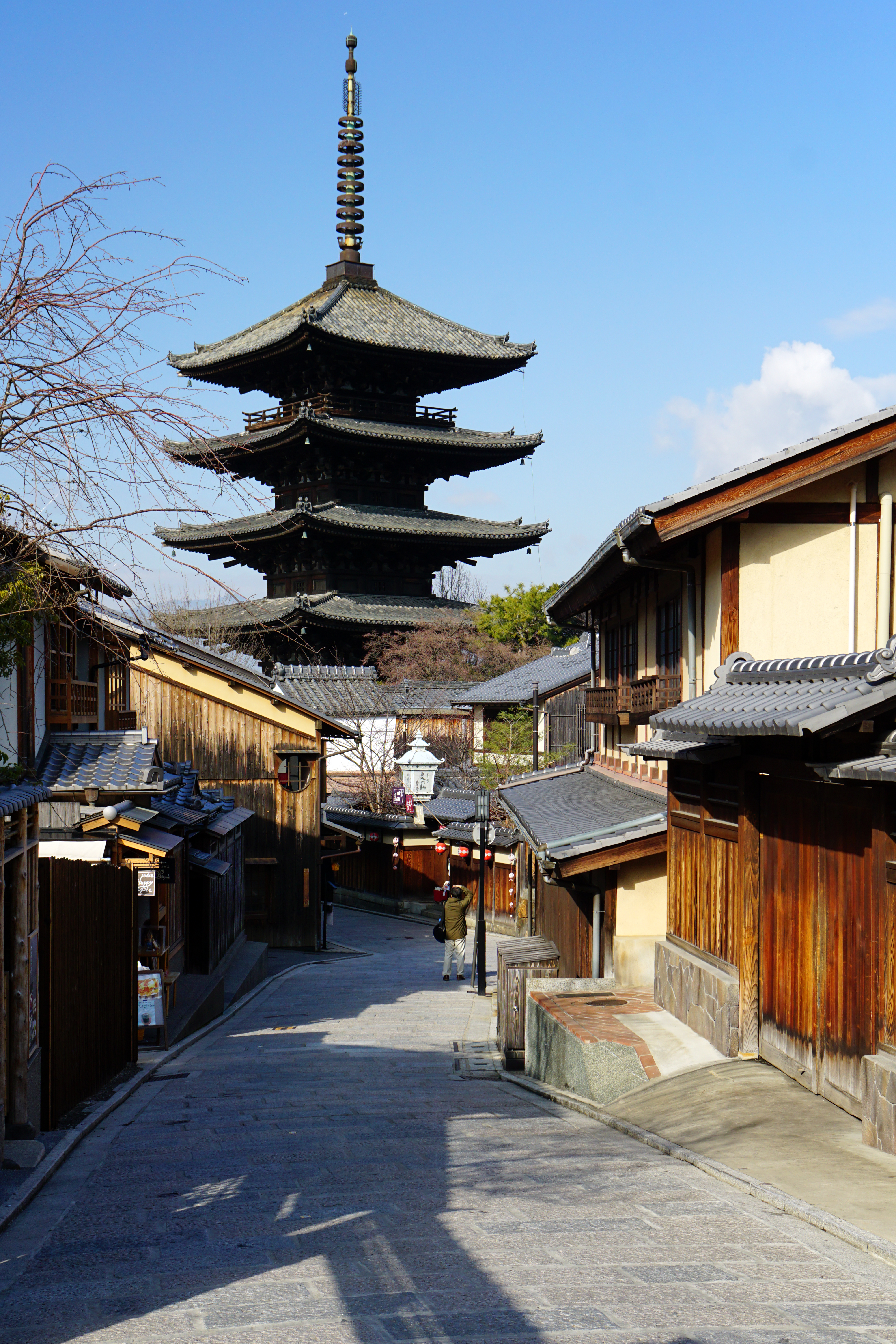 At Yasakakamimachi, Higashiyama-ku, Kyoto, Kyoto prefecture, Japan.